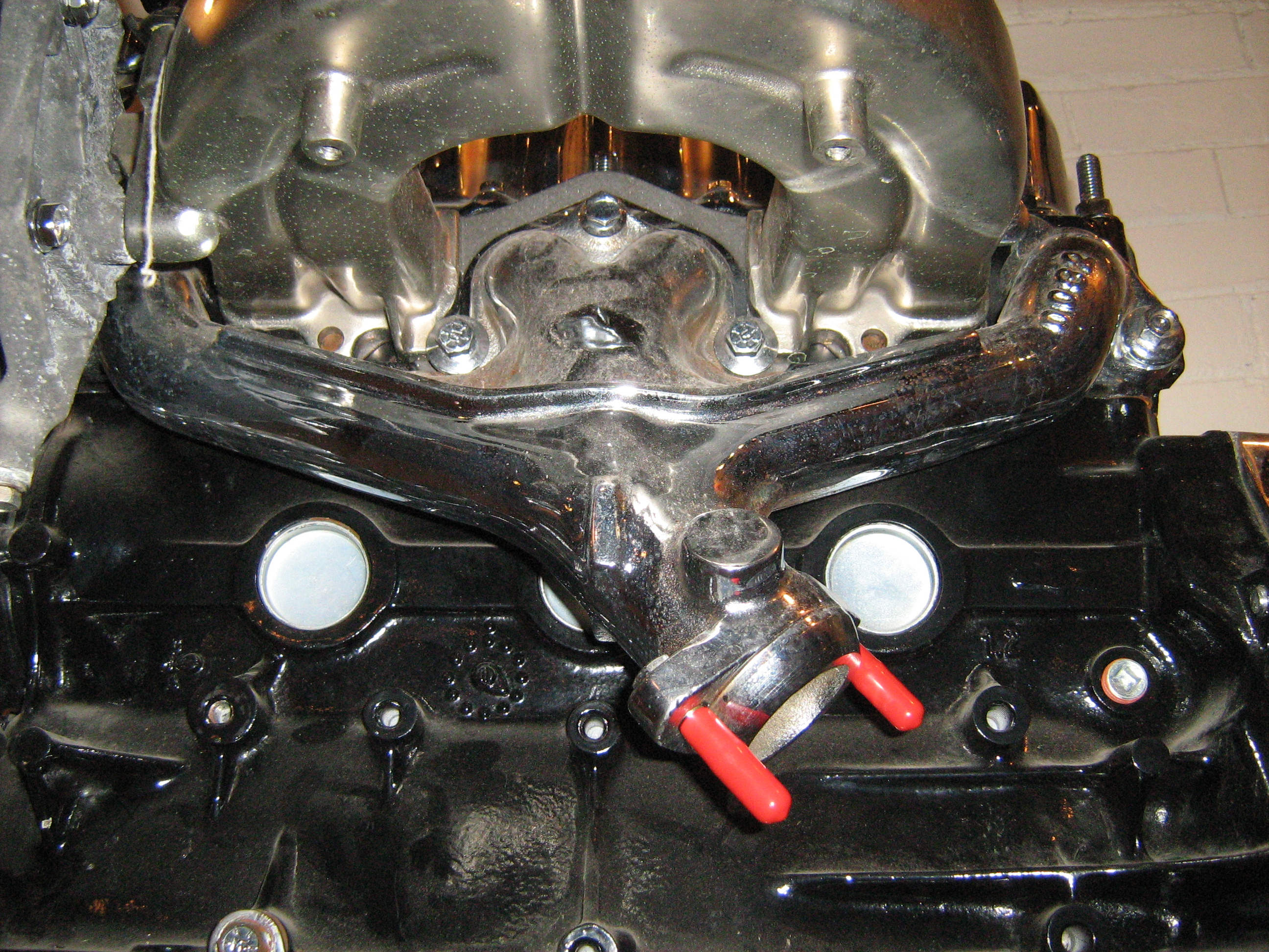 Jeep 2.5 liter 4-cylinder engine, chromed - close up of the exhaust manifold viewed from the bottom. This engine was developed by American Motors Corporation (AMC) and continued to be manufactured by Chrysler. All were built in Kenosha, Wisconsin.